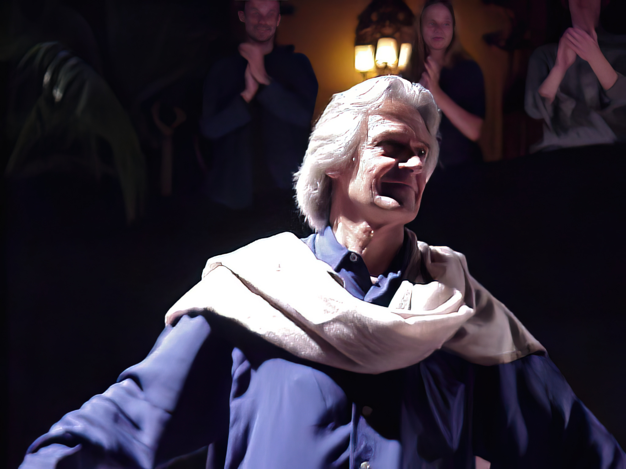 John McLaughlin, Remember Shakti Concert, Bayrischer Hof, Munich, Germany, July 20th, 2001